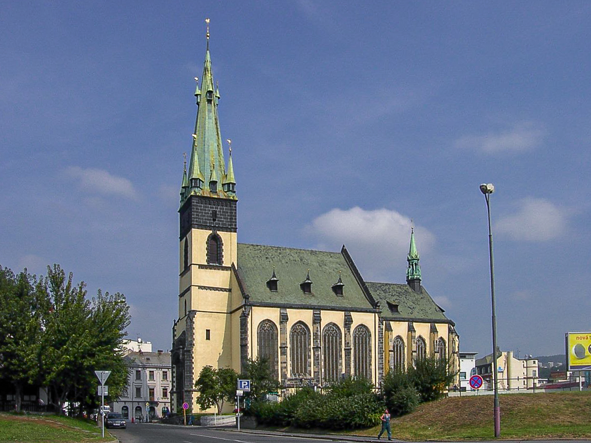 The gotic church with the narrow tower in Ústí.